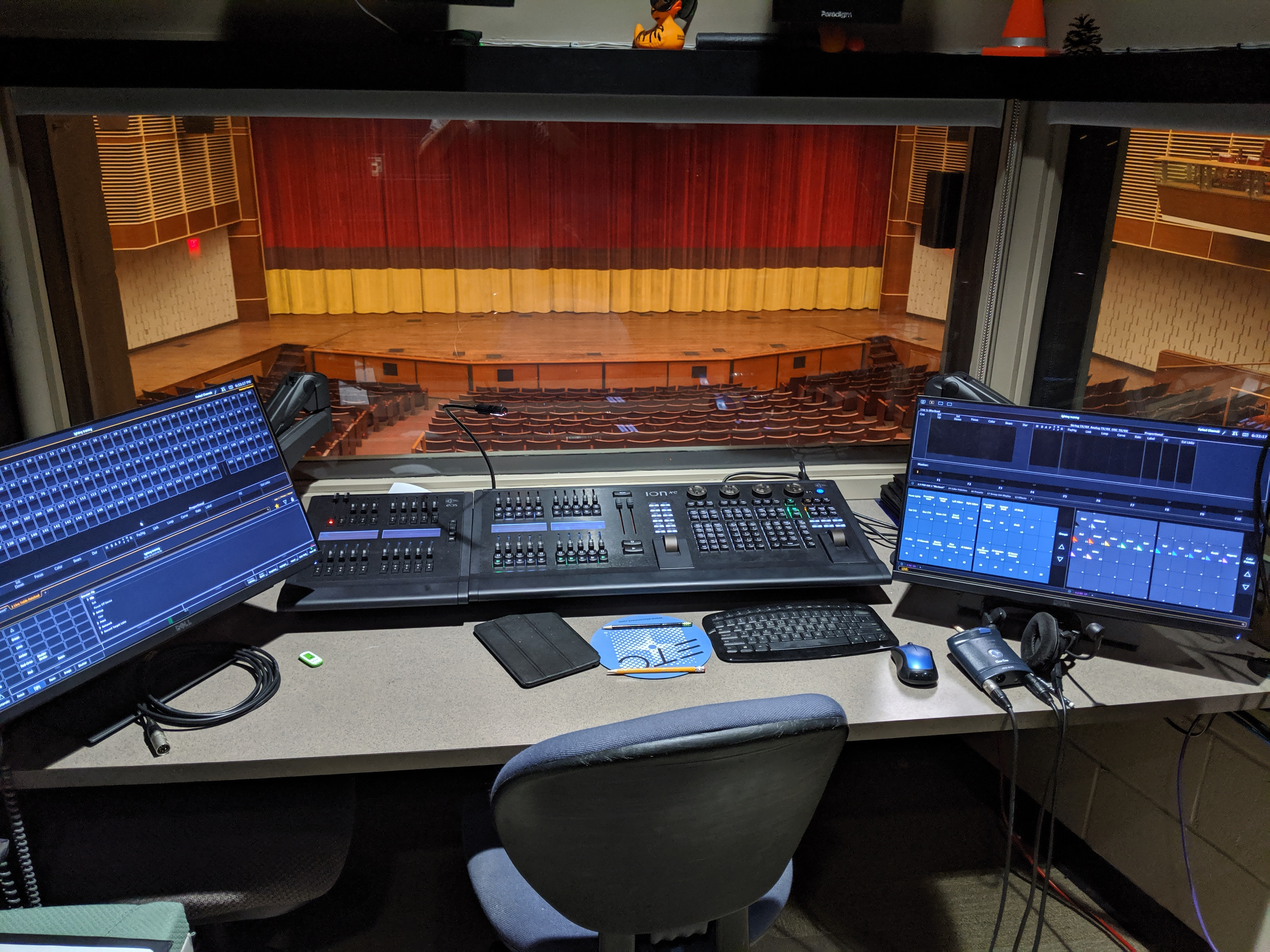 An ETC Ion XE 20 lighting control console made by Electronic Theatre Controls